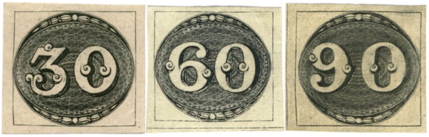 Brazil first postage stamps nicknamed Bull's Eyes, 30, 60 and 90 réis, 1843, scott#1, 2, 3.